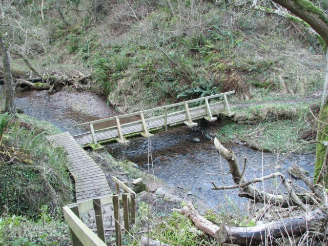 Footbridge, Pease Dean. The footpath in Pease Dean doubles back over the Heriot Water in this Scottish Wildlife Trust managed woodland.